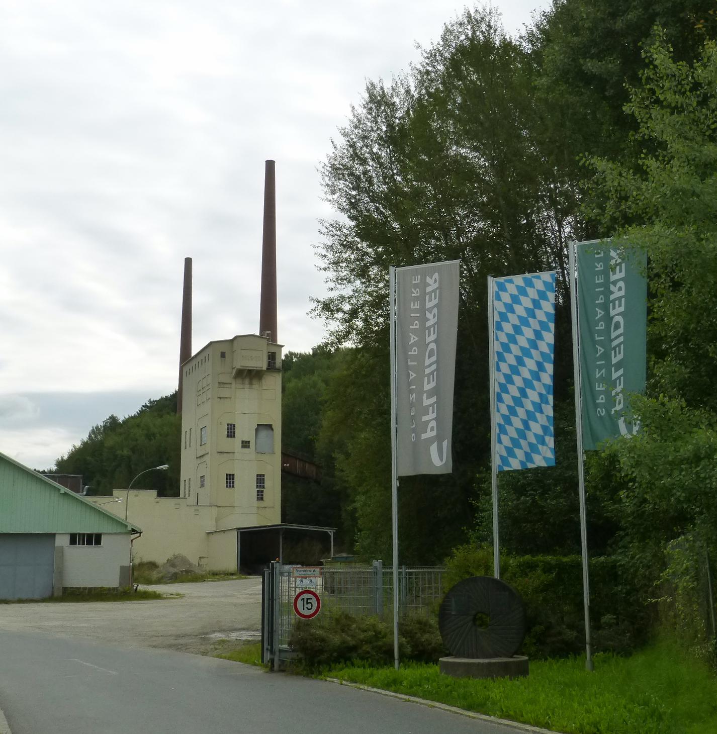 Paper mills PLEIDERER SPEZIALPAPIERE, Teisnach, Lower Bavaria. Two stacks, near the Schwarzes Regen river.